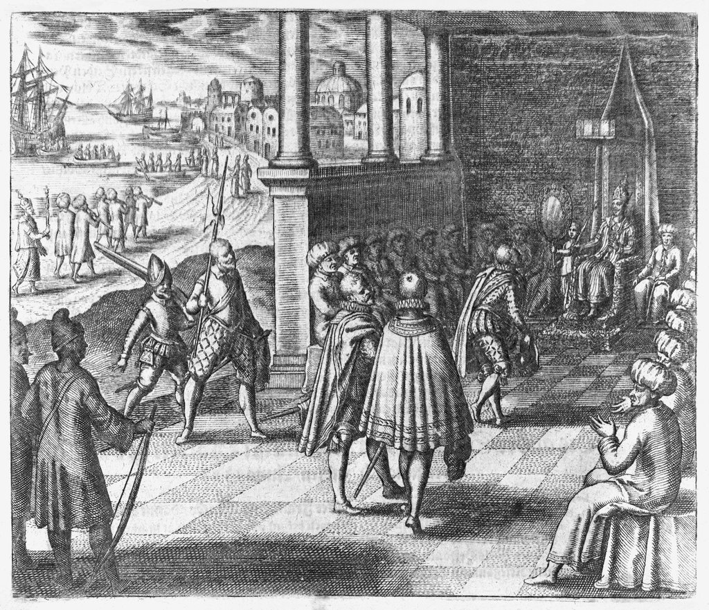 Francis Drake visits Babullah of Ternate in 1579.